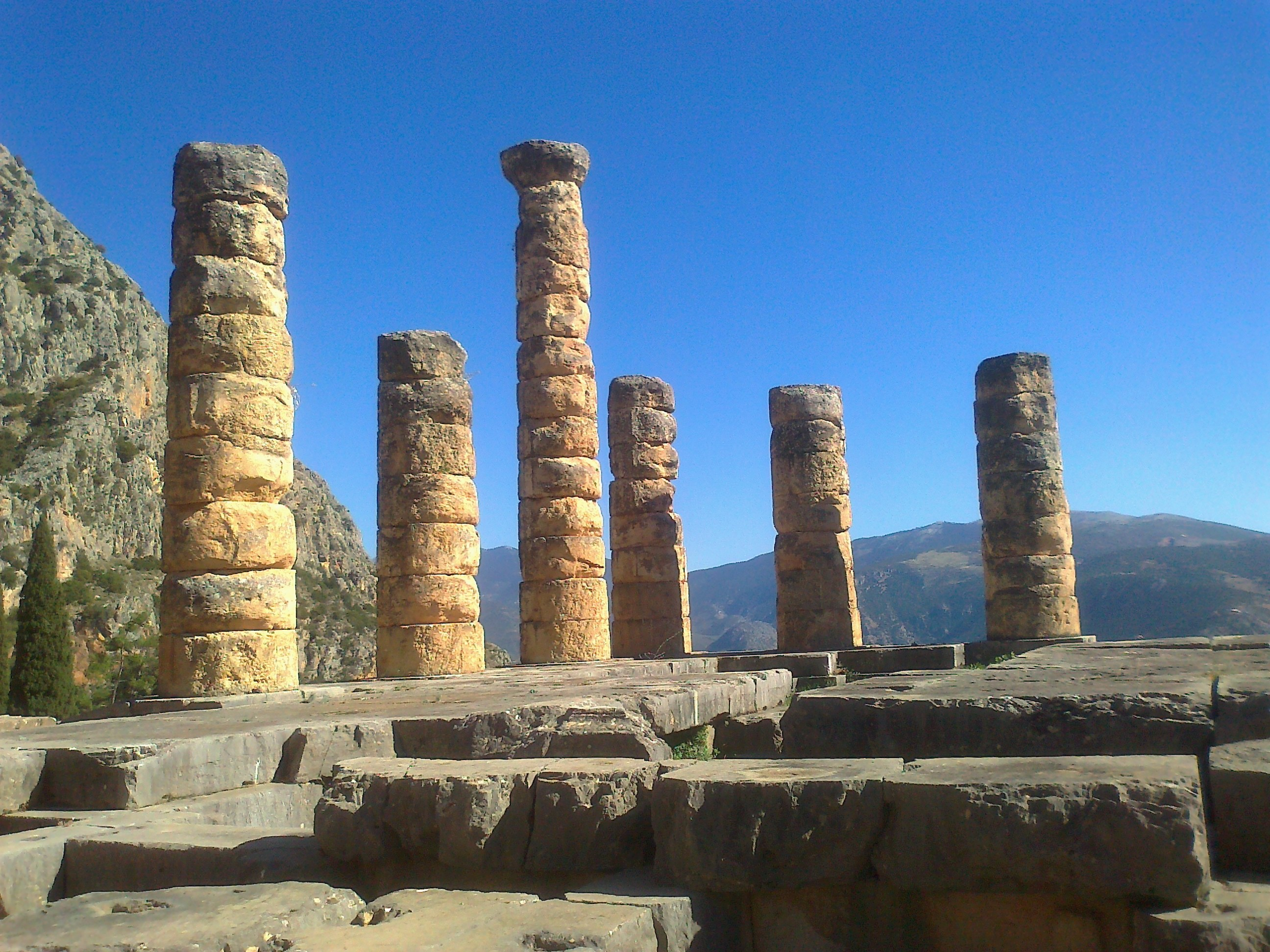 Delphi is a fantastic excursion from Athens. Around 3 hours by us, it has a large archaeology site - the Delphi Sanctuary, containing the Temple of Apollo, where 6 Doric Columns have been reinstated